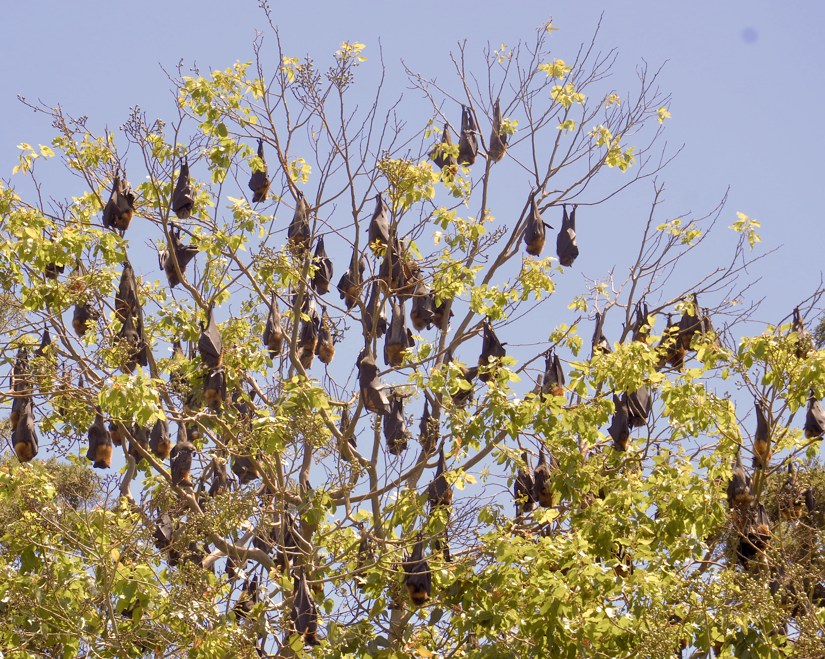 Flying foxes assist revive forests and keep ecosystems healthy by pollination and seed dispersal.